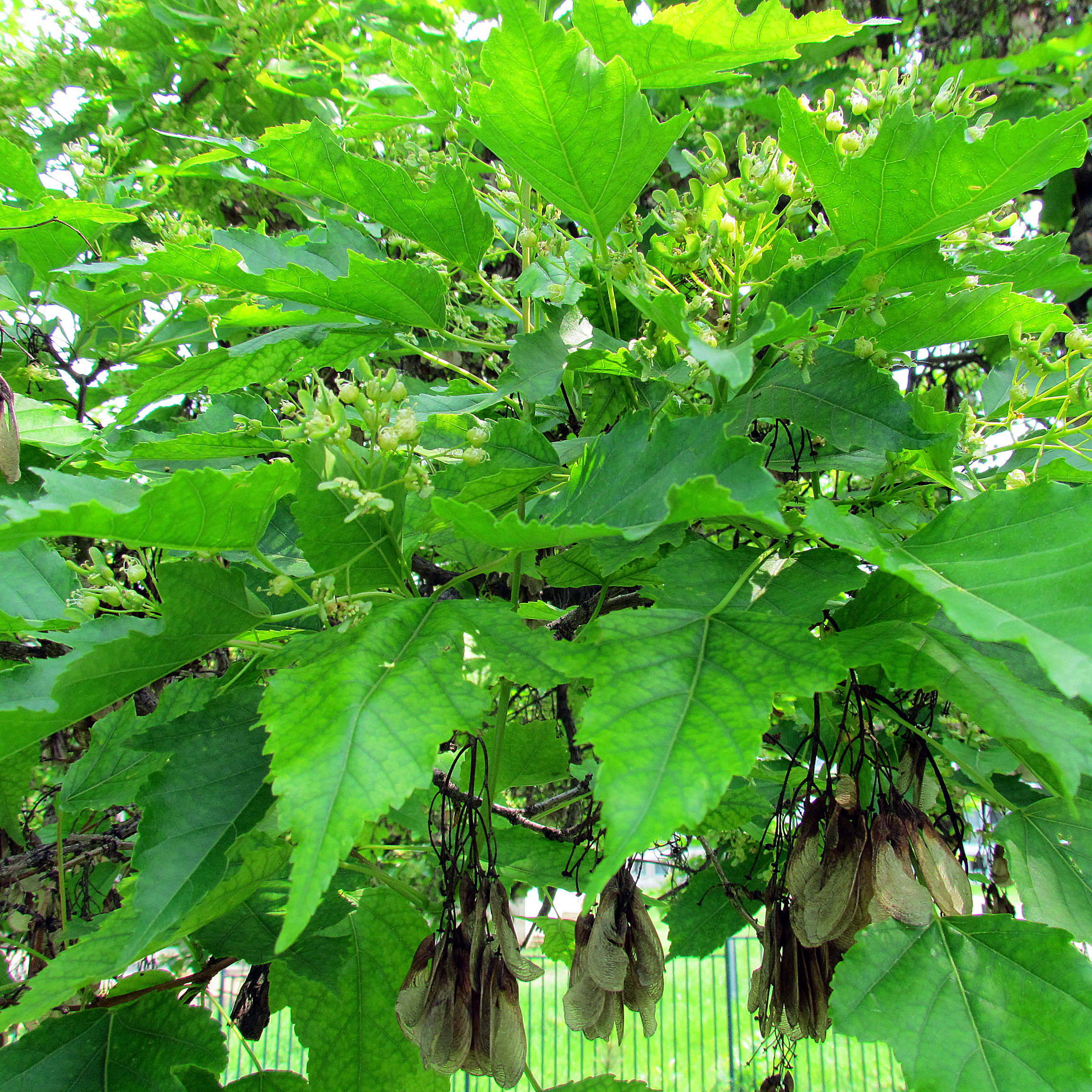 Acer ginnala leaves, flowers, and samaras